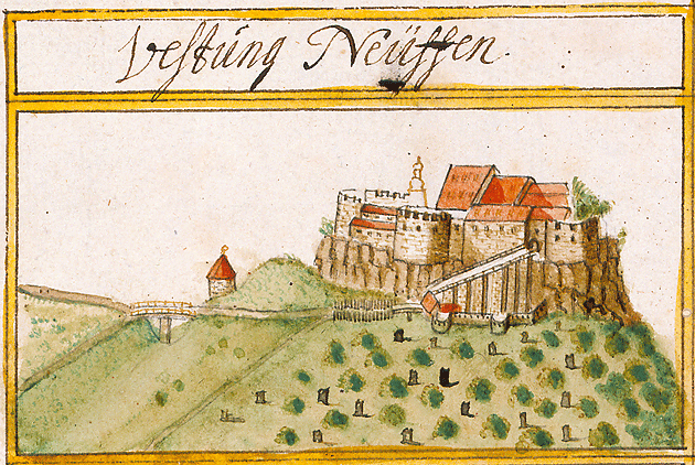 View of Hohenneuffen, former castle near Neuffen, from the forest register books created by Andreas Kieser